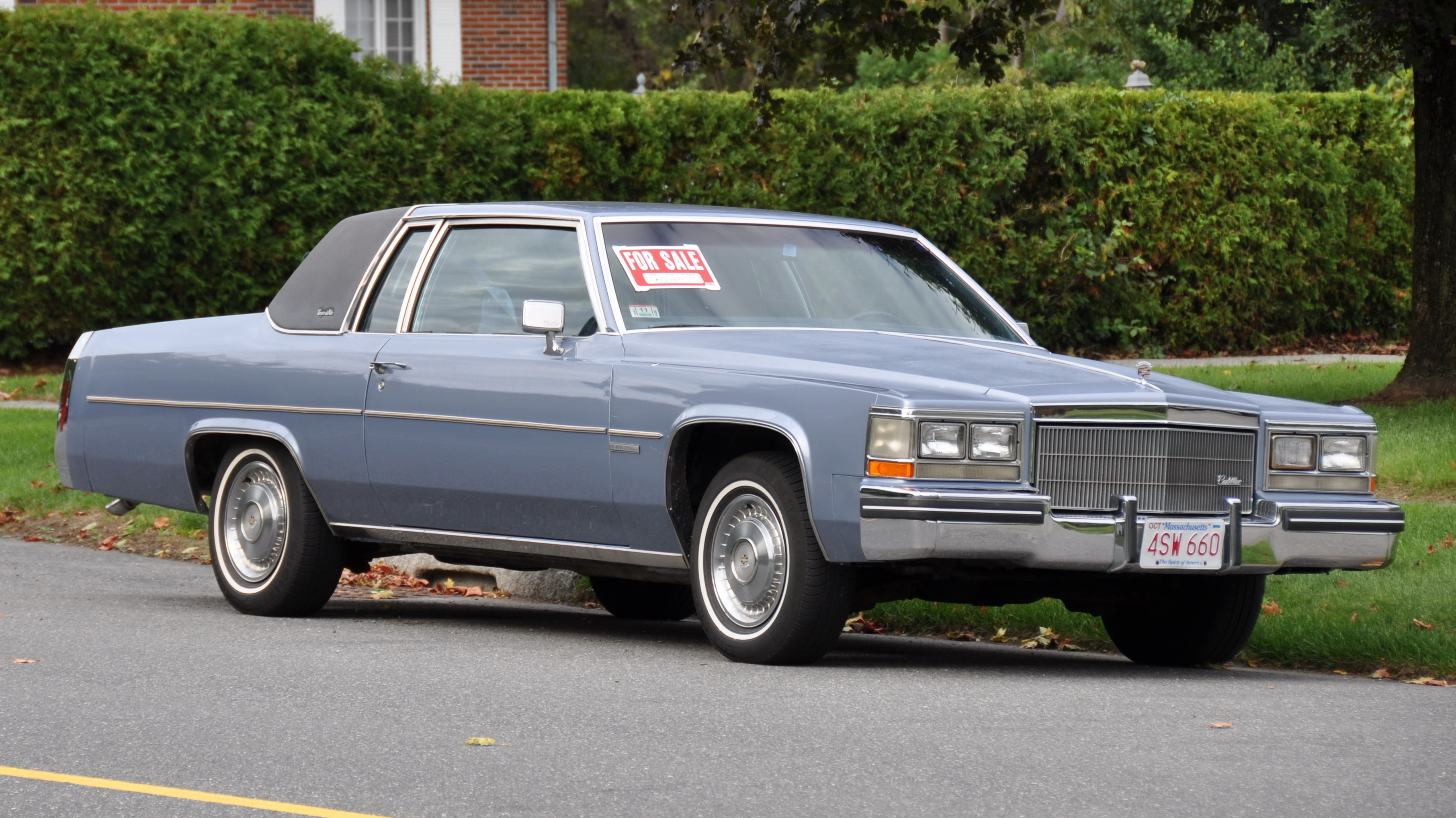 A 1983 model, yours for $2,950, but comes with a little headlight moisture.